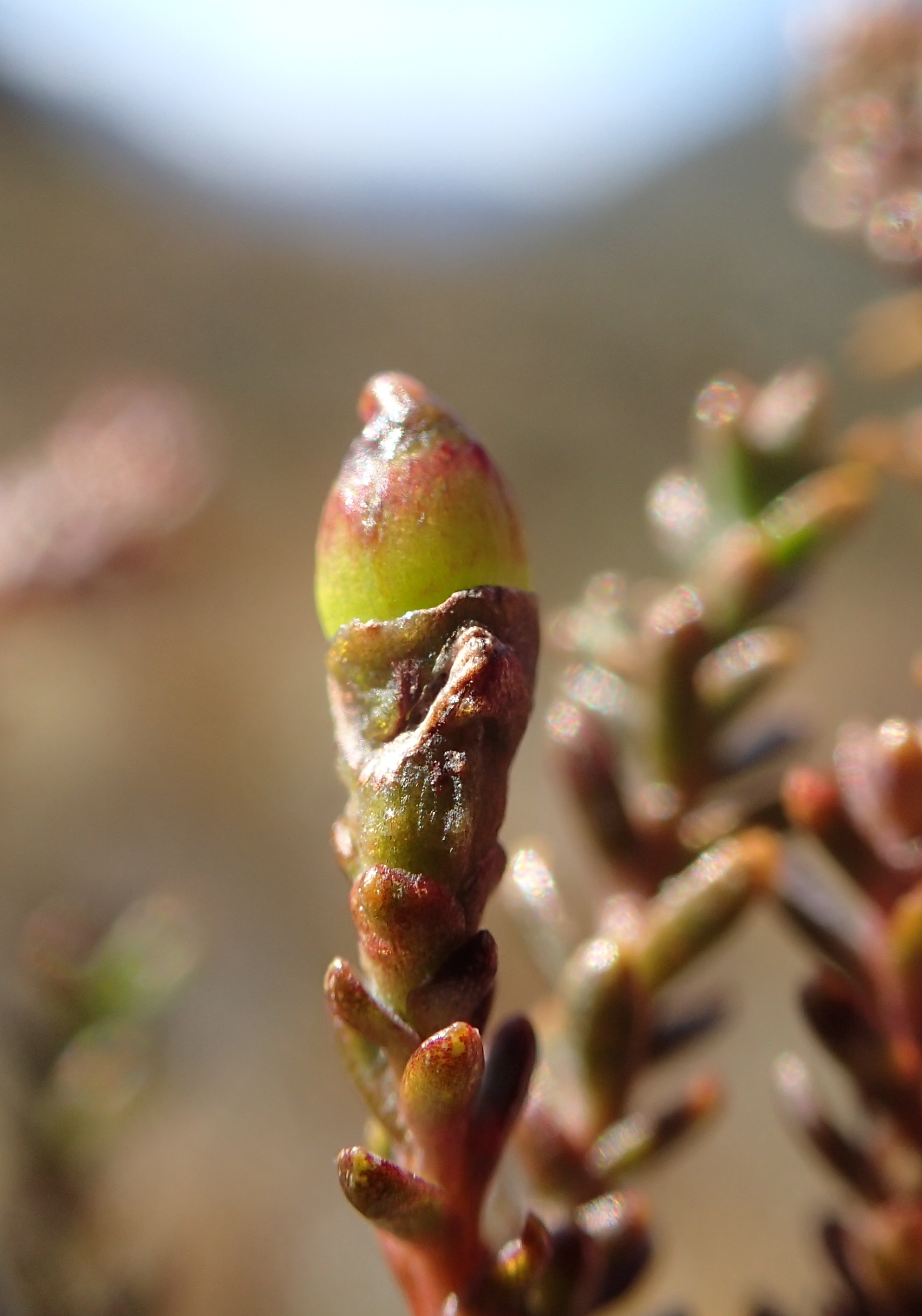 Lepidothamnus laxifolius in Otira Valley, West Coast (New Zealand)